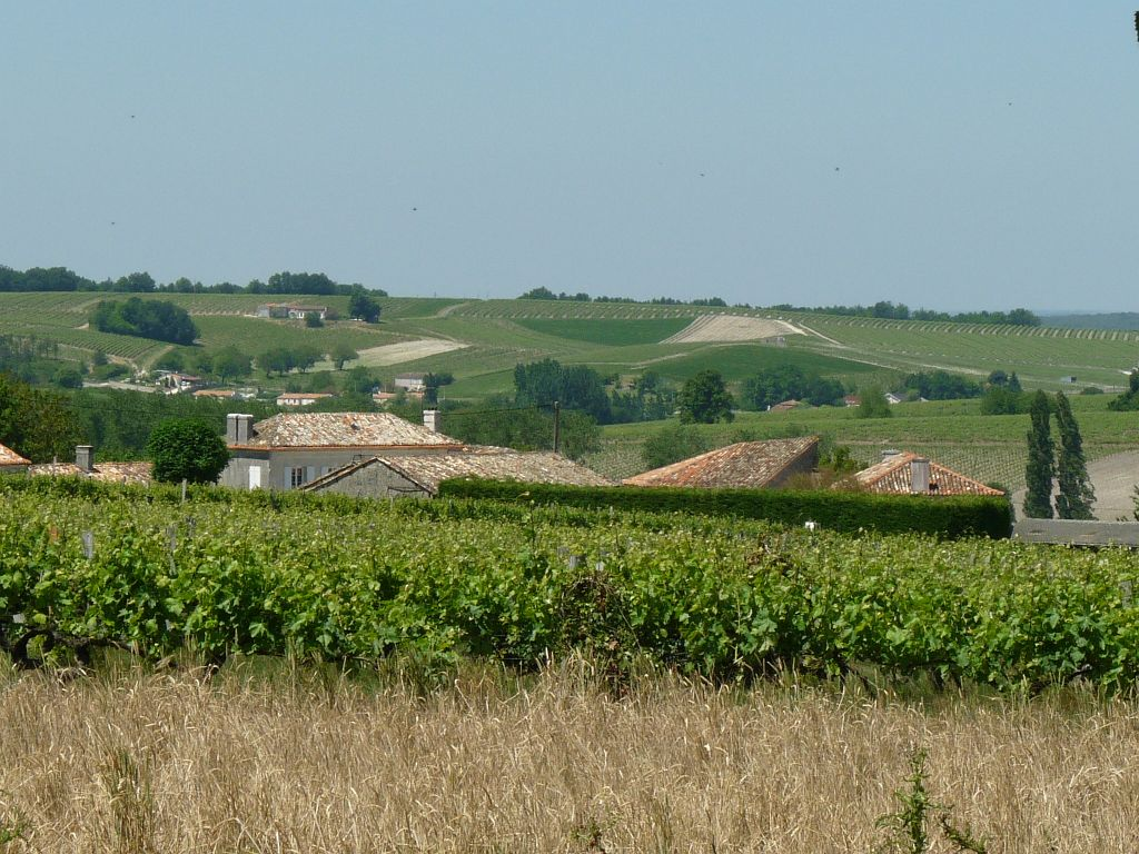 view of Birac surroundings, Charente, France